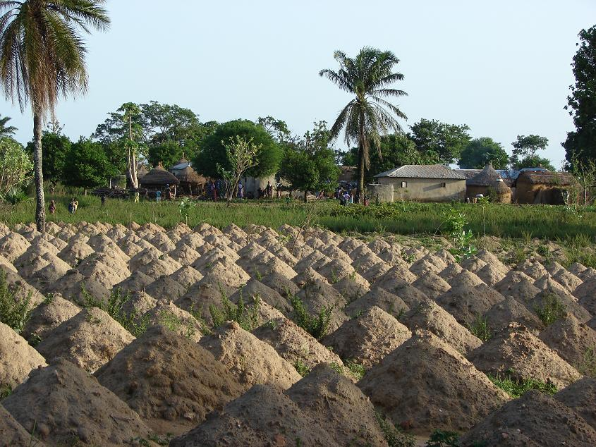 Countryside around Sokodé: manioc field and hamlet